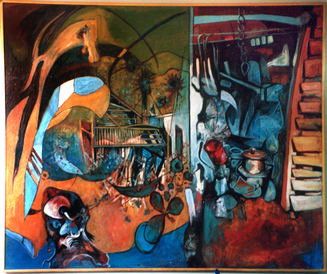 Painting is based on stories Zusters heard from a Czech refugee living alone in the bush near Hill End